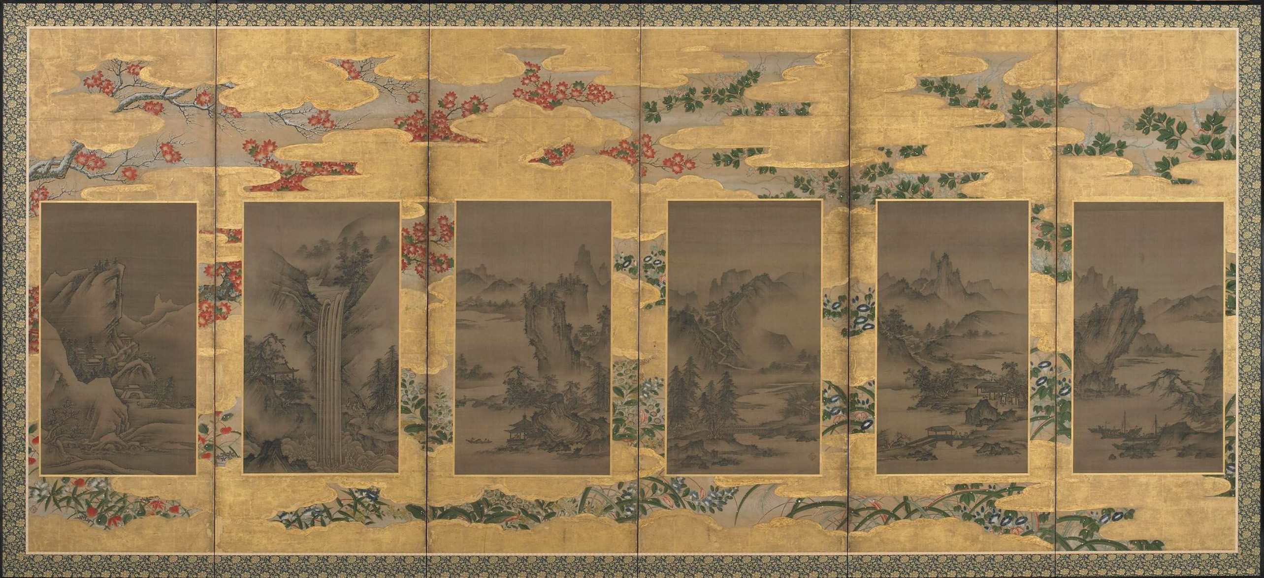 Kanō Motonobu (1476-1559). Landscapes, flowers, and trees of the four seasons. Six-panel folding screen. Ink, color, and gold on paper, 175.2 x 375.8 cm. Freer Gallery of Art